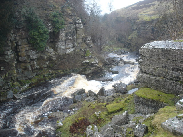 Bottom of the Trough This is where Sleightholme Beck emerges from a limestone gorge and starts to open out into a more V-shaped valley. The photo was taken on an exploratory kayak descent - there was not really enough water to put back on quite at this point, but this is where the difficulties of the narrow gorge above ease up and paddling this section looks an interesting prospect for an even wetter day.